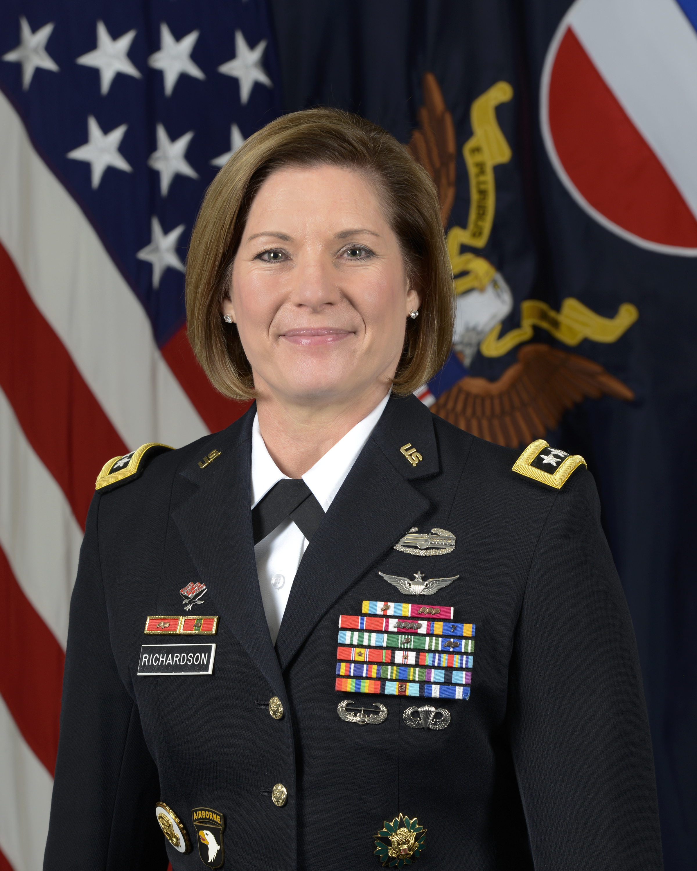 U.S. Army Lt. Gen. Laura J. Richardson, Deputy Commanding General, U.S. Army Forces Command (FORSCOM), poses for a command portrait in the Army portrait studio at the Pentagon in Arlington, Va., Dec. 5, 2017. (U.S. Army photo by Monica King)